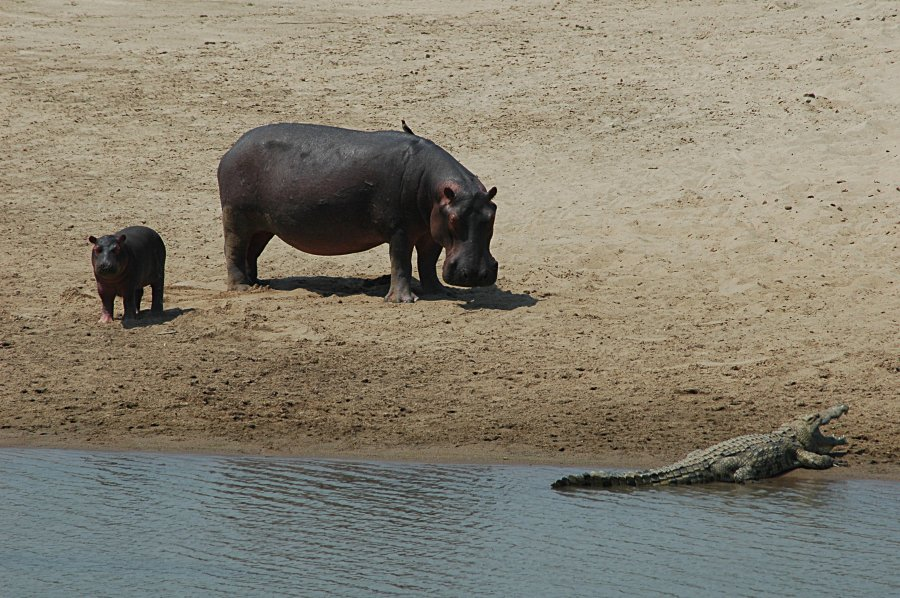 Mommy hippo, baby hippo and big bad croc, South Luangwa NP, Zambia -- by User:Jpatokal